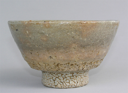 Korean Ido teabowl